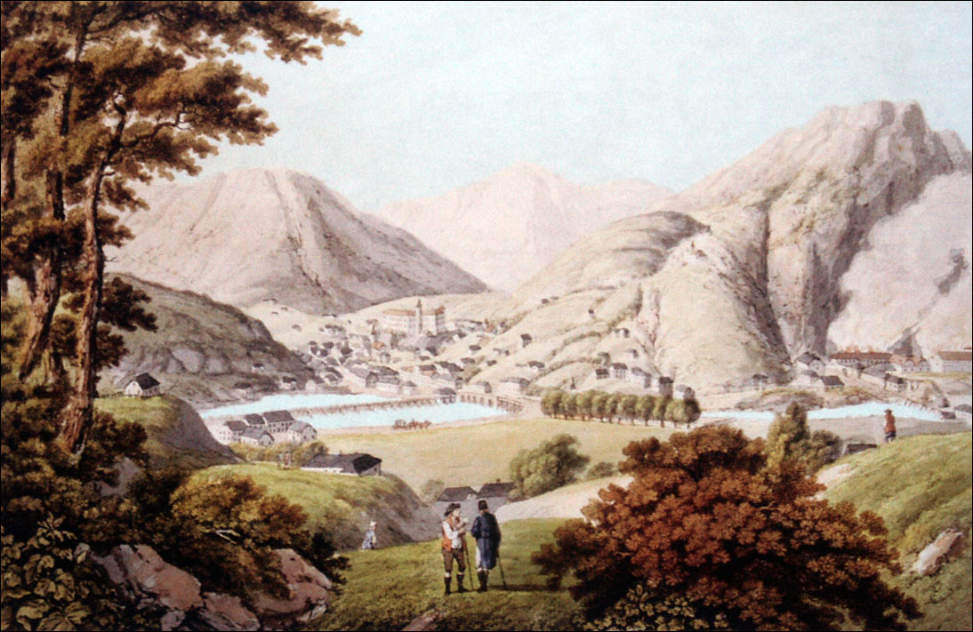 Idrija